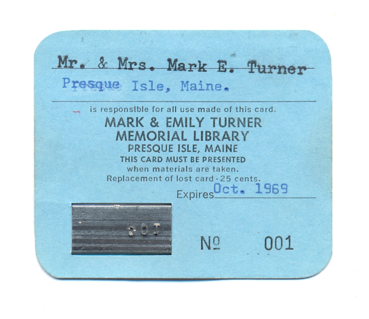 This an image of Library Card 001 originally owned by Mark and Emily Turner. It was left to the Turner Memorial Library after their deaths.